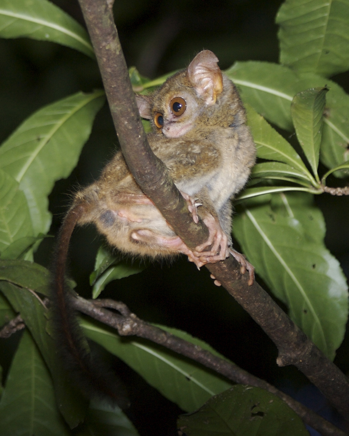 A cute little nocturnal creature found in north east Sulawesi, has the largest eye to body size ratio of all mammals Geography suggests this is an undescribed species of Tarsius, not the Spectral Tarsier (Tarsius tarsier). Reference: Groves, C.; Shekelle, M. (2010). "The Genera and Species of Tarsiidae" (PDF). International Journal of Primatology.